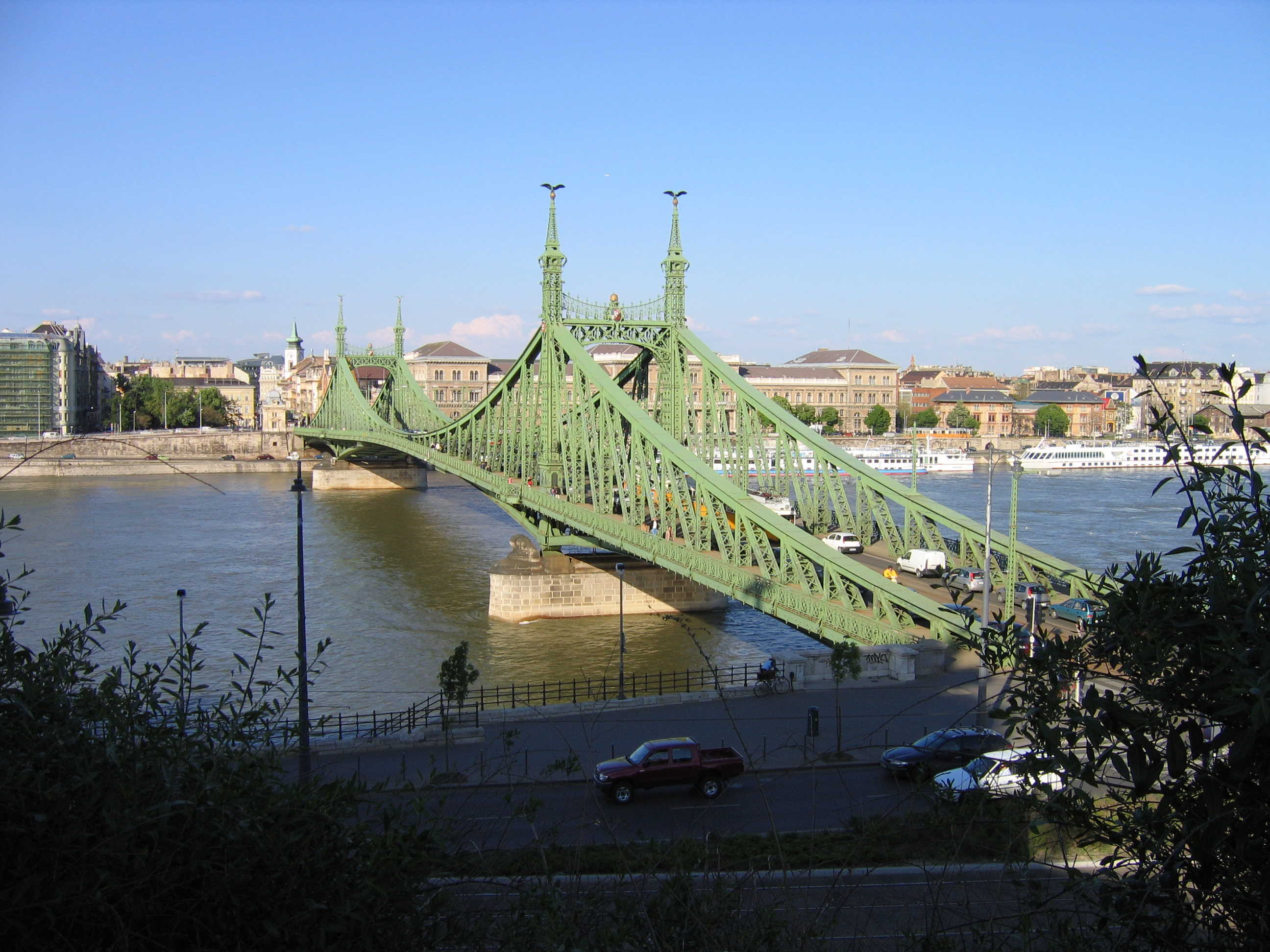 Liberty Bridge (Szabadság híd) and Corvinus University Budapest, Hungary